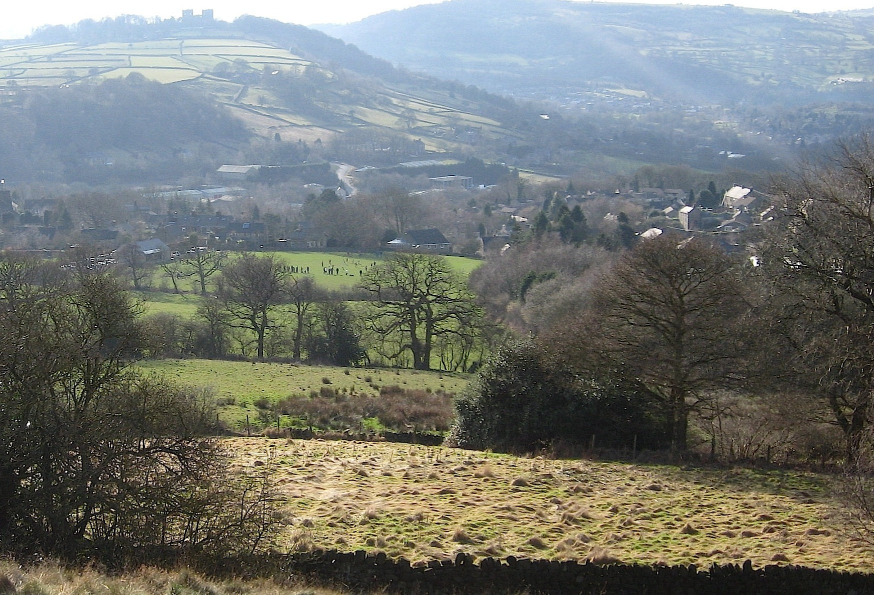 view of village of Tansley, Derbyshire from ne height